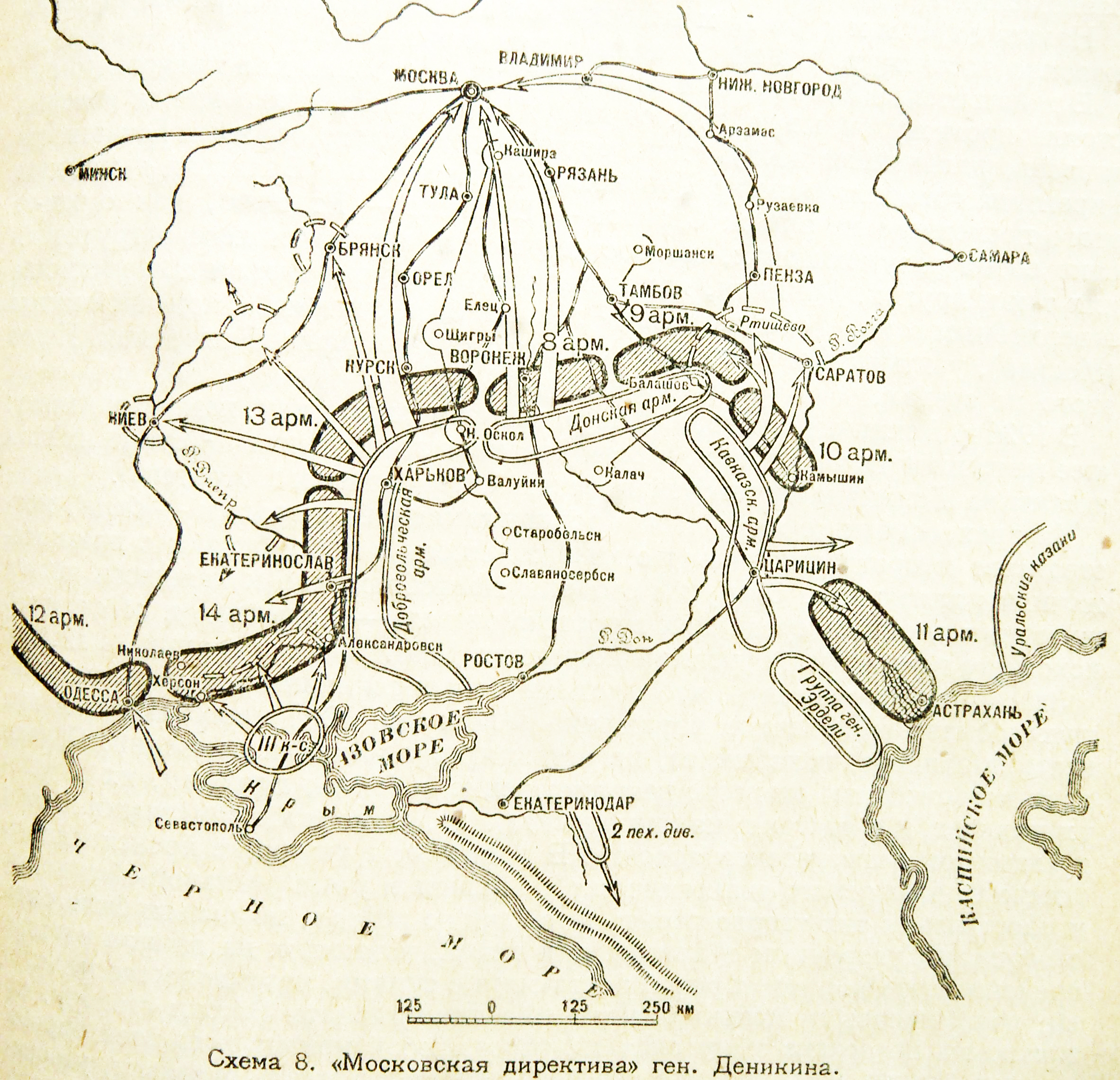 Map showing dislocation of Red and White Armies and plans of White Army to conquest Moscow - so called "Moscow Offensive". Russian Civil War. Summer 1919.